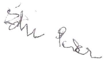 Edna Parker's signature